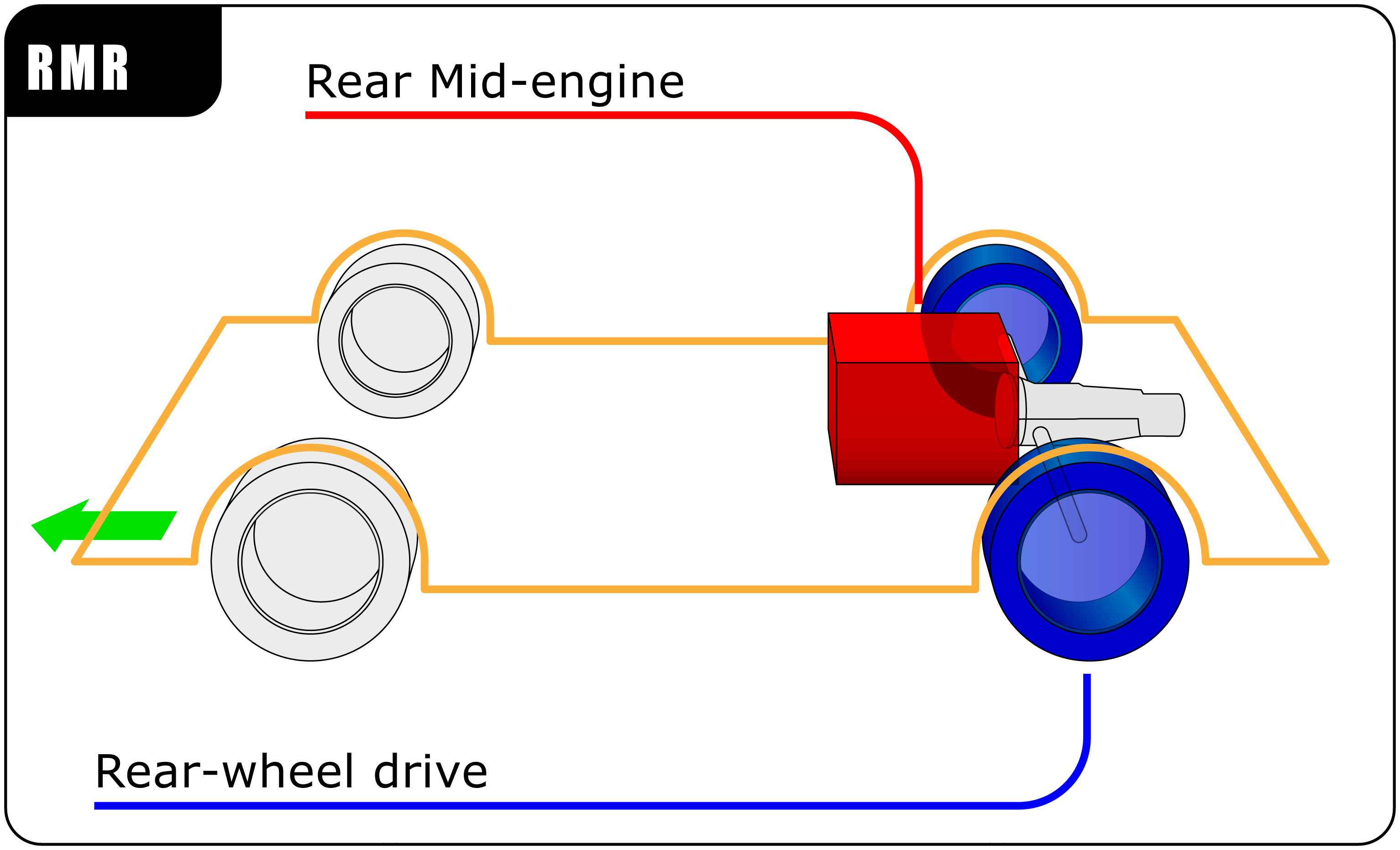 Vehicle engine and drive wheel placement diagrams (German versions coming soon)